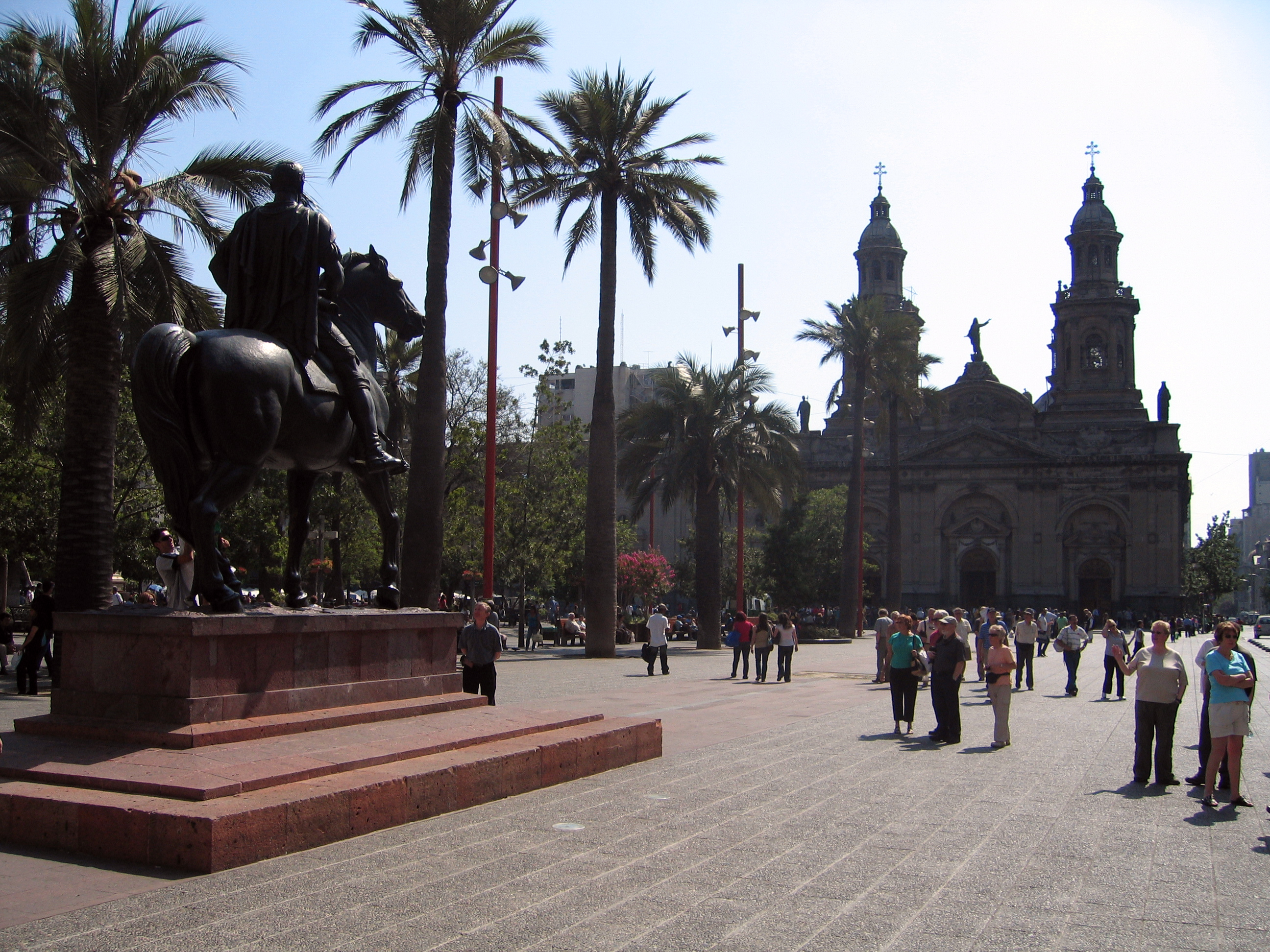 Plaza de Armas Santiago Chile